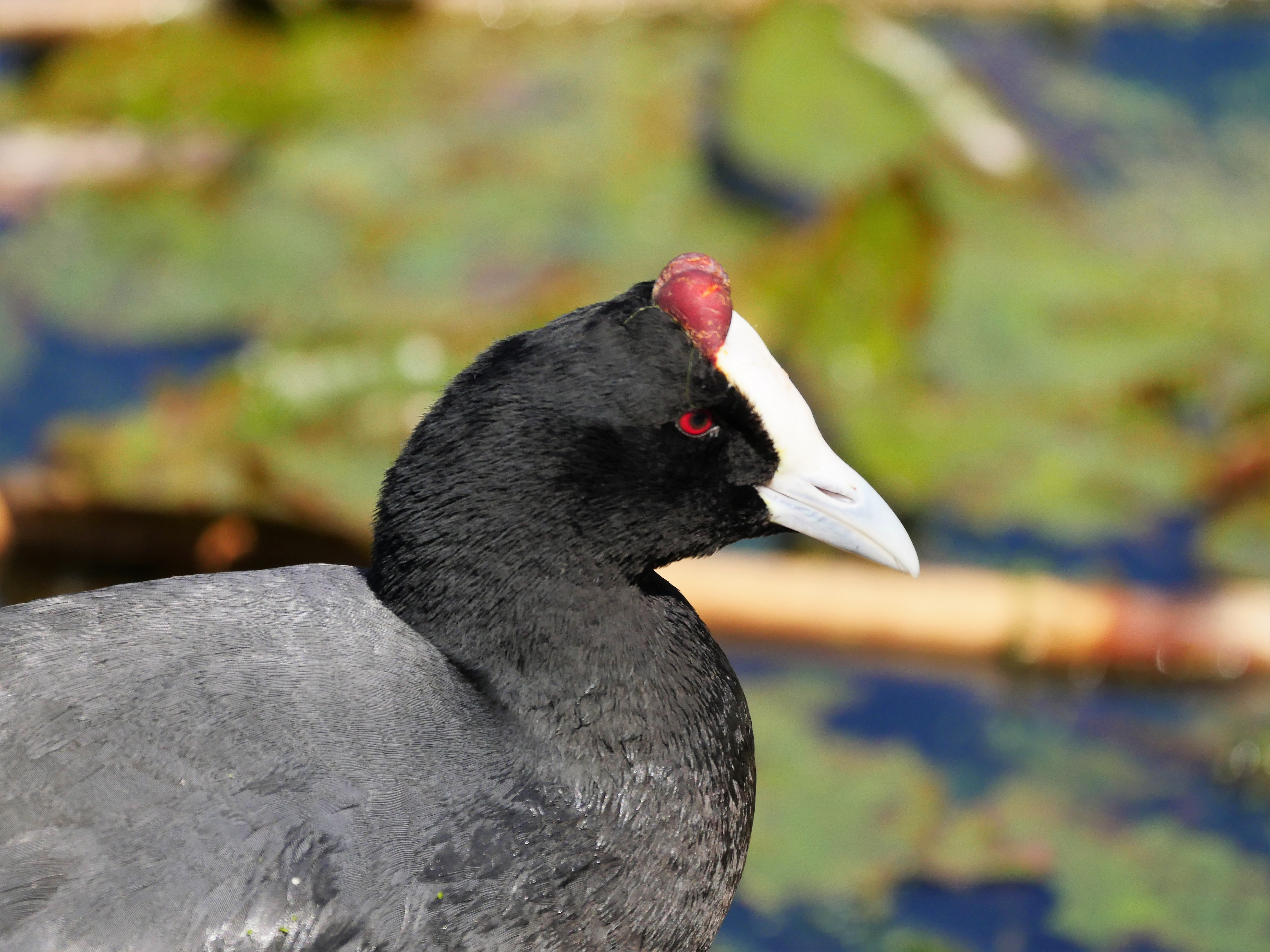 Red Knobbed Coot showing its namesake characteristic